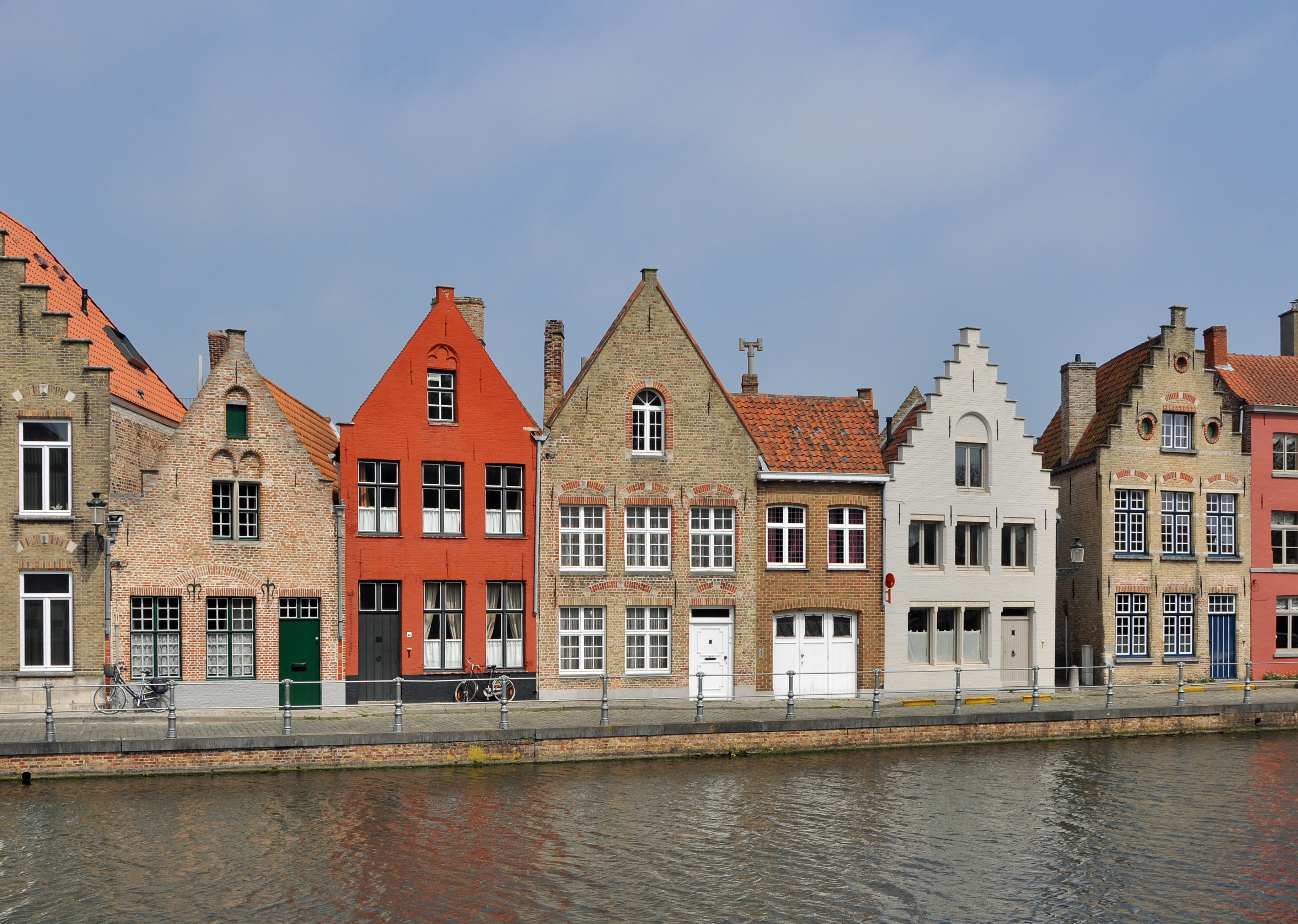 Bruges (Belgium): houses at the Potterierei